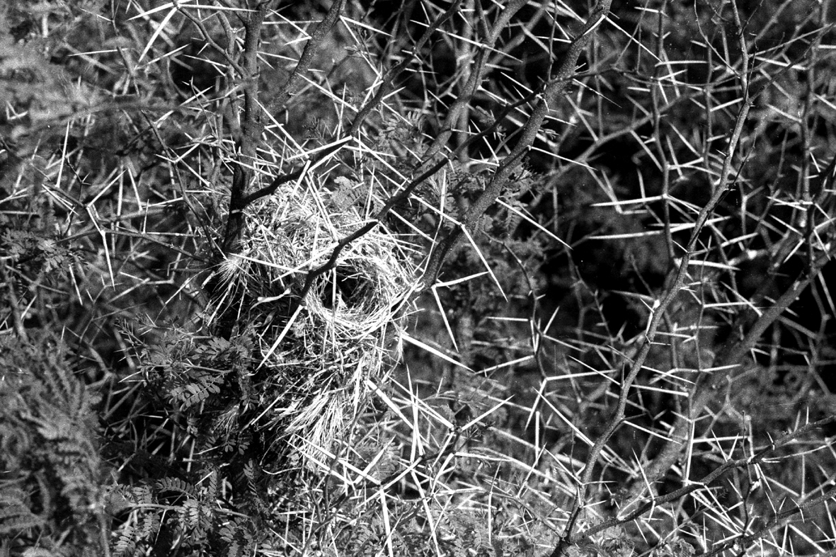 Spanish Sparrow nest in an acacia hedge in April 1983 at Es Sénia, Algeria